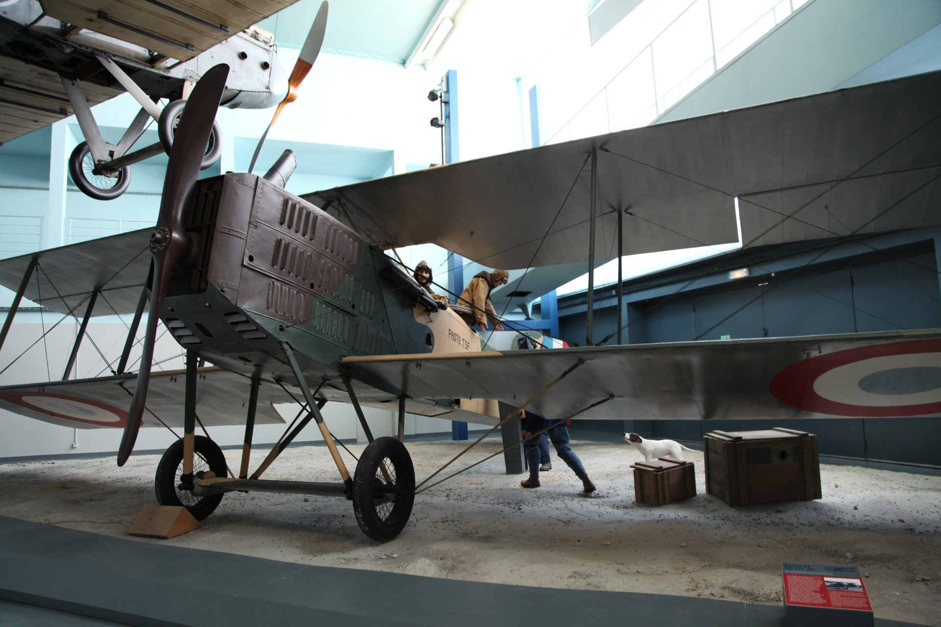 Breguet XIV A-2 observation, in 1917, Preparing a mission - WW1 - Museum of Air and Space - Le Bourget - France